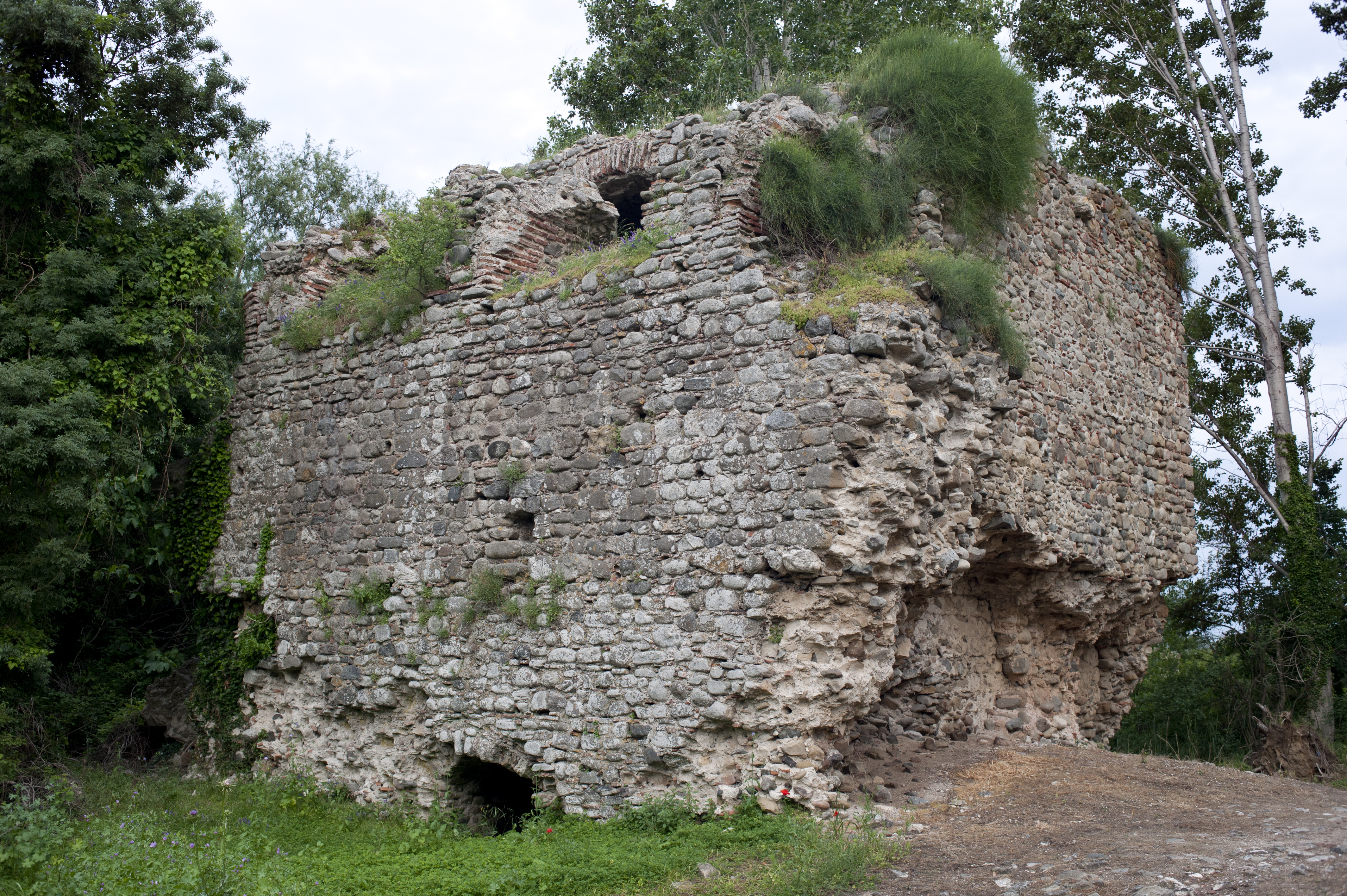 Anastasiopolis - Peritheorion, Amaksades, West Thrace, Rhodope, Greece.